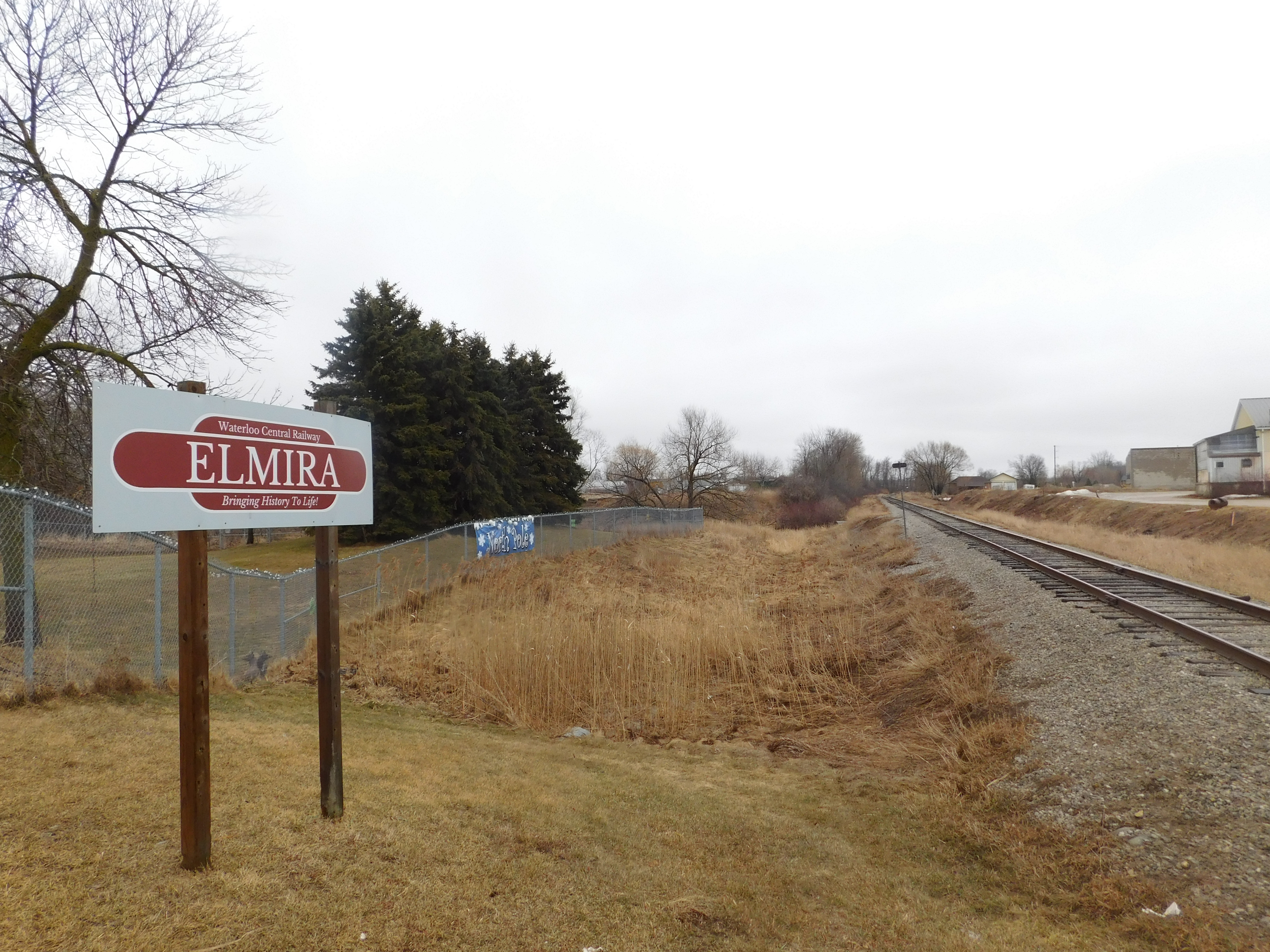 Elmira station of the Waterloo Central Railway in Elmira, Ontario in March 2019.